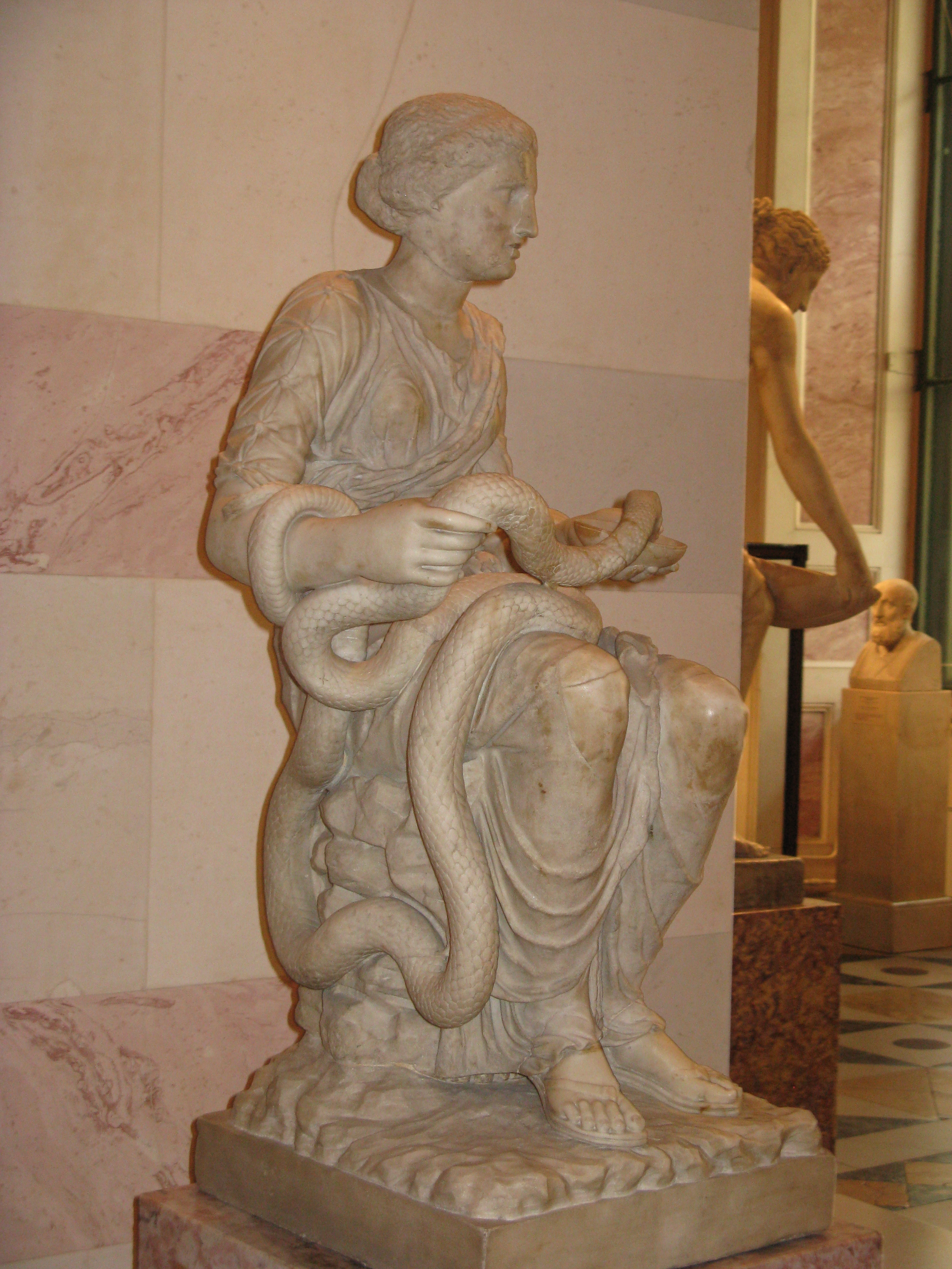 Hygeia, Roman copy from a Greek original, Ancient Rome. 1st century, Marble. H. 87 cm, At the Hermitage